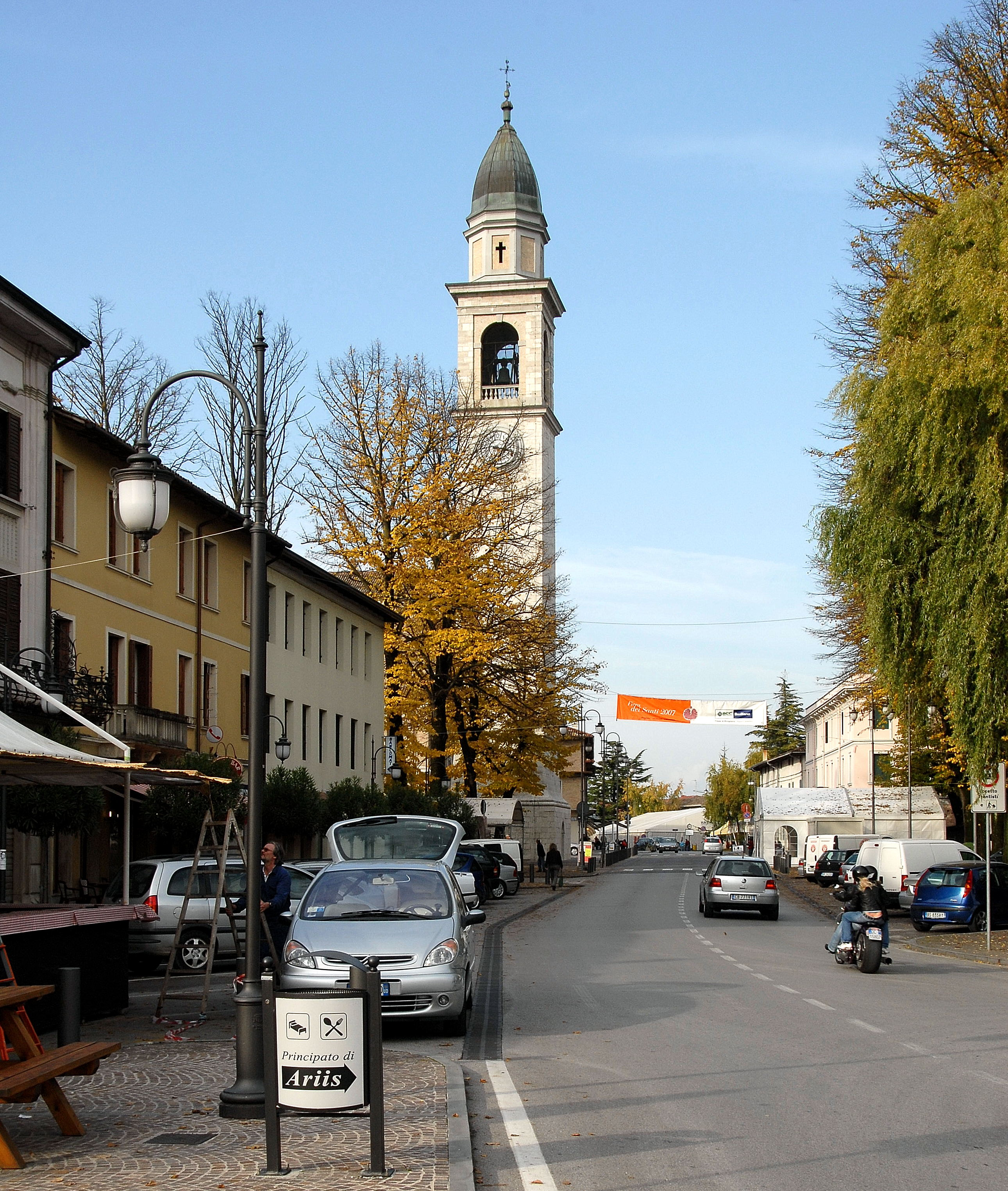 Main road with belfrey (campanile) at Rivignano, province of Udine, region Friuli Venezia-Giulia, Italy